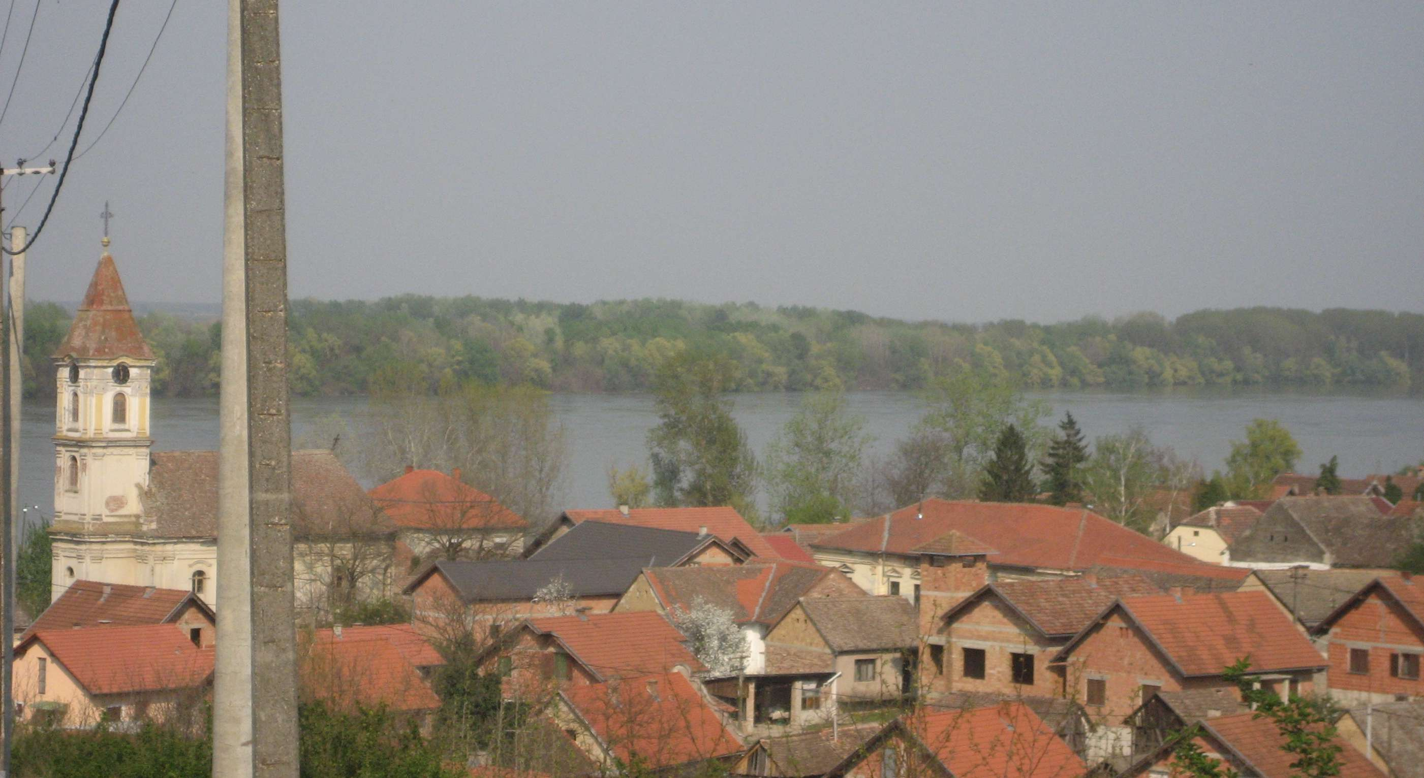 Serengrad in Croatia